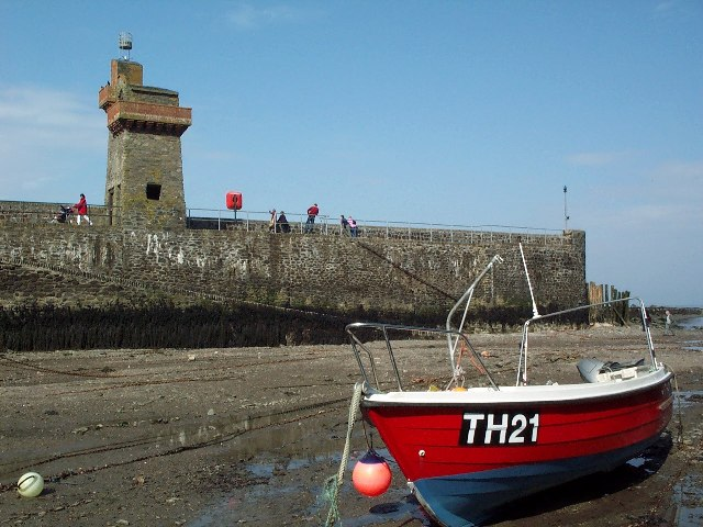 Lynmouth Harbour.